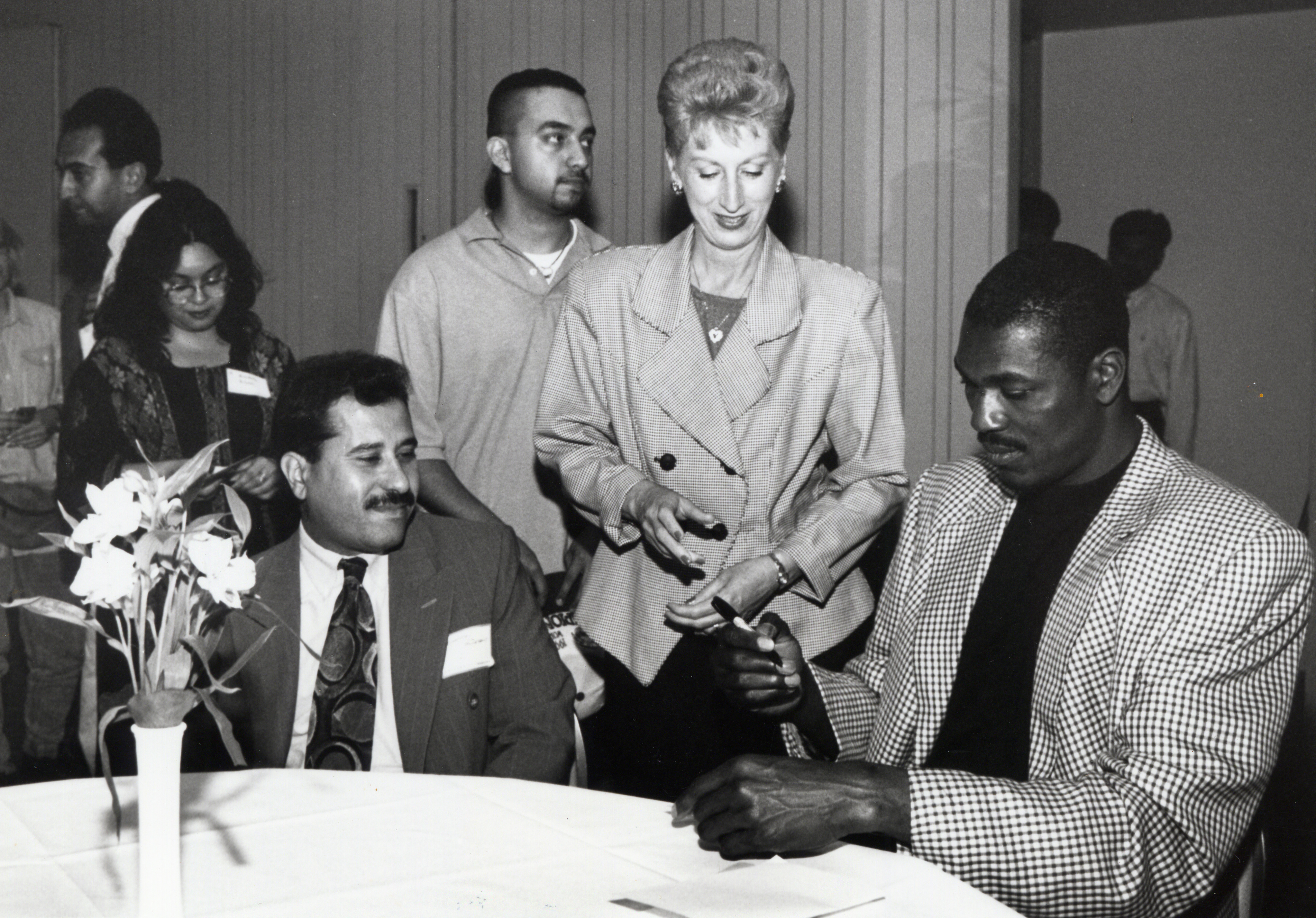 Hakeem Olujuwan signs autographs